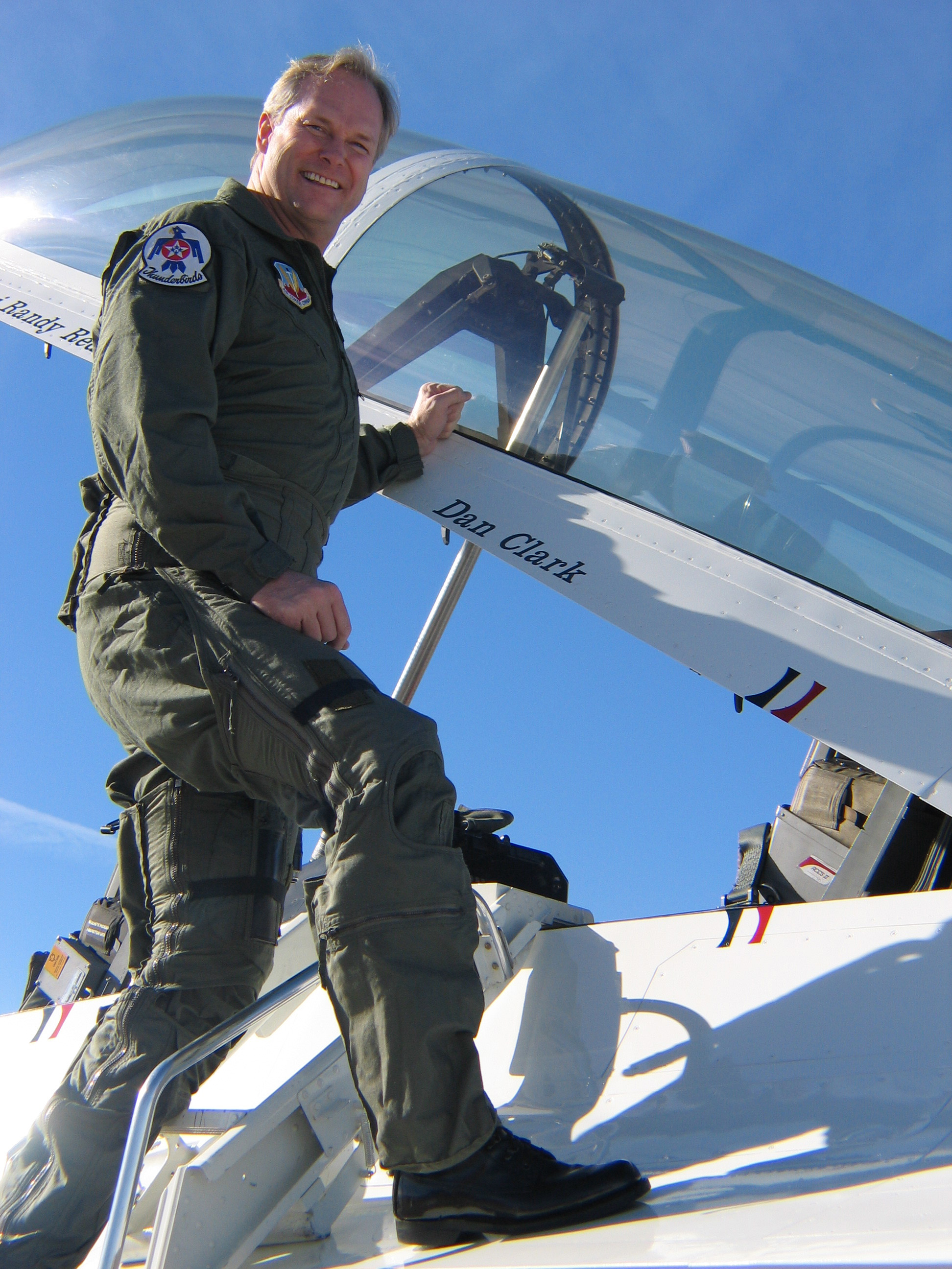 On January 4, 2004 Clark flew with the U.S. Air Force Thunderbirds at speeds of 1.1 Mach, catching 9.4 G's, and doing acrobatic stunts.